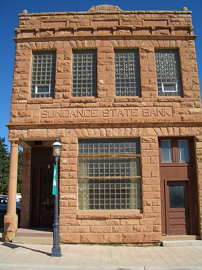 Sundance State Bank